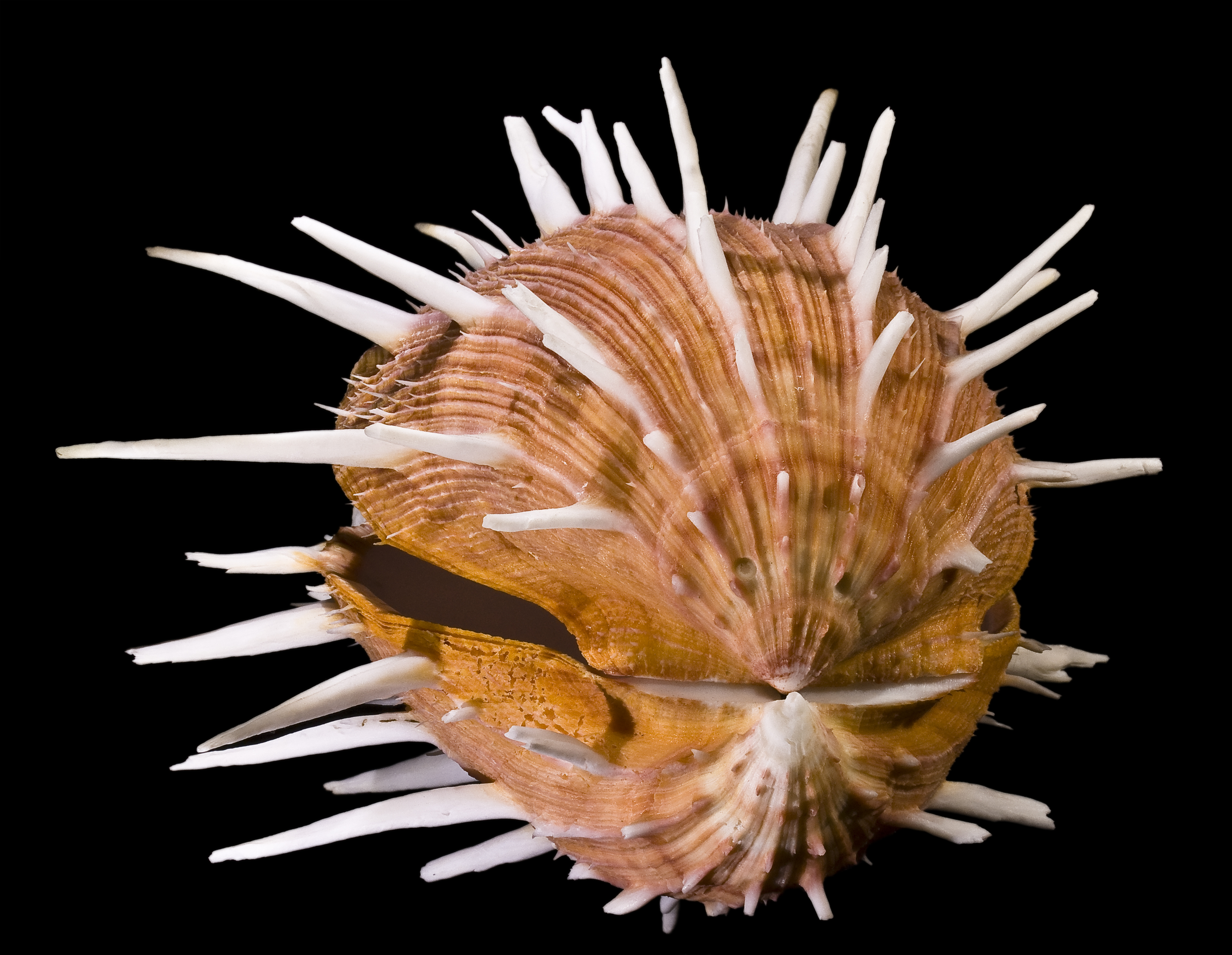 Spondylus regius - Royal or Regal Thorny Oyster - Spondylidae - Philippines - 16cm